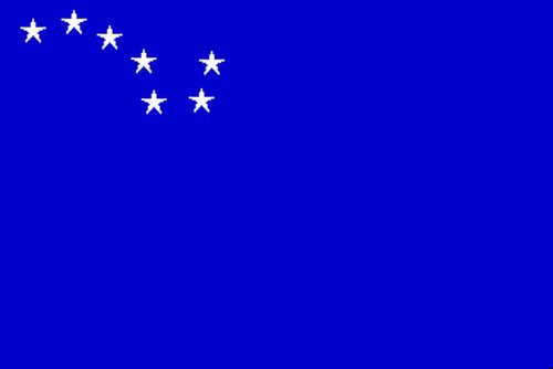 The flag of The White Sea Karelia self-proclaimed state. It is approved at June 21, 1918 at Ukhta urban-type settlement (Now it is known as Kalevala, an Urban-type settlement in the Republic of Karelia, Russia. It had been named Ukhta until 1963). The flag had been used till 19th of March 1920.